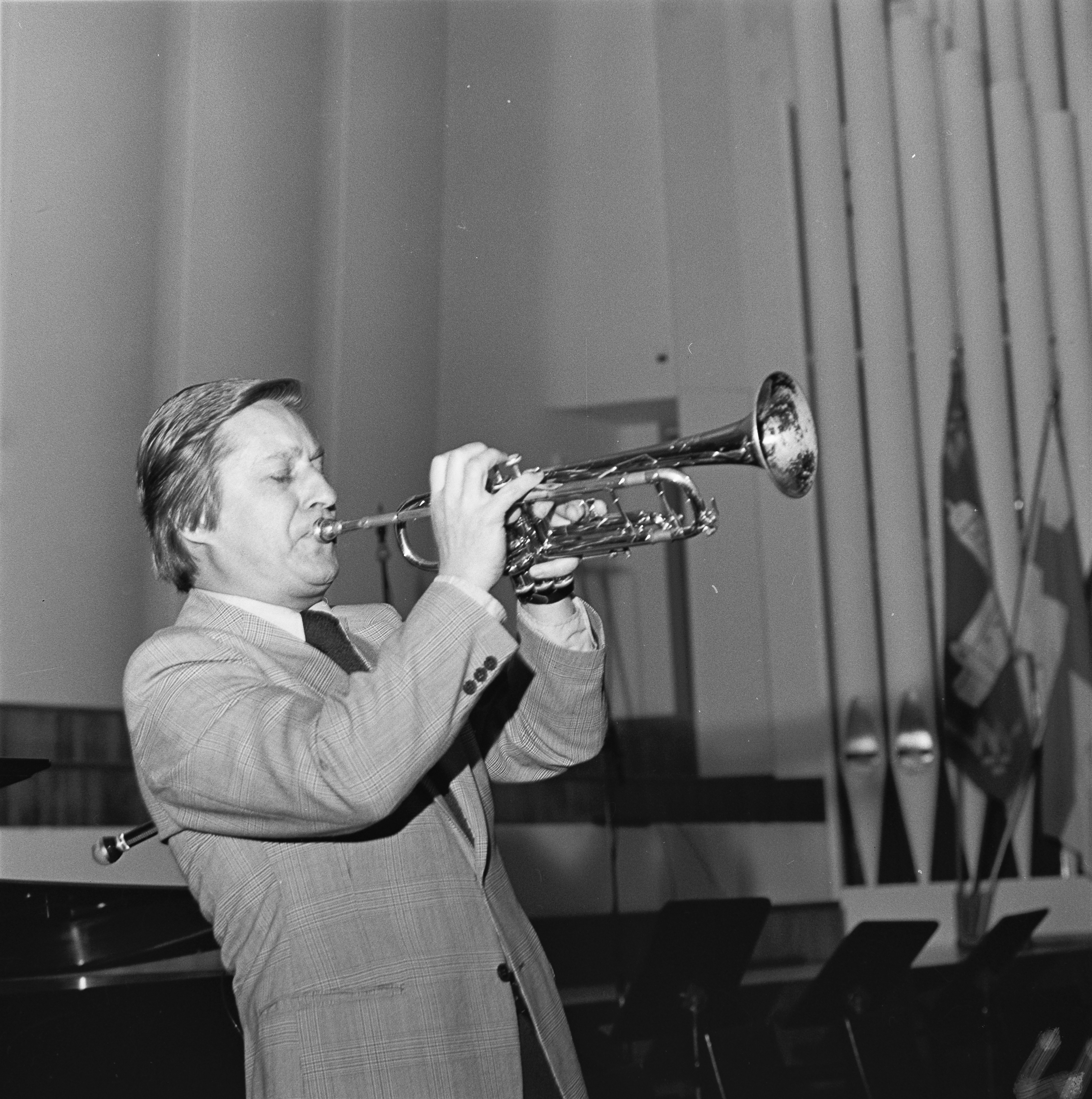 Photograph of the Finnish musician Ossi Runne (1927–) playing the trumpet at a Viipuri evening of Karjalan Liitto in Helsinki.